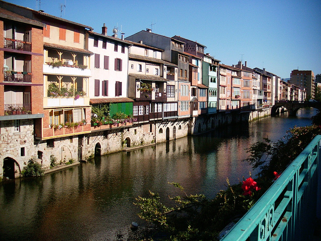 The river Tarn flows through the middle of the old town of Castres.